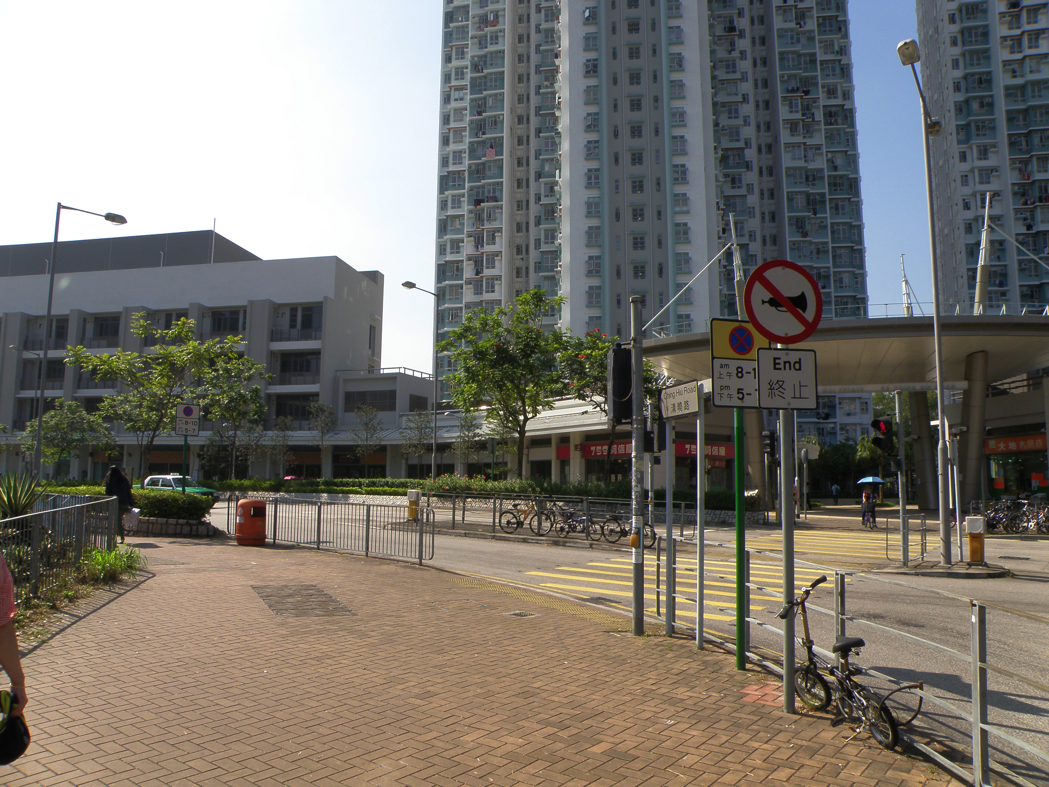 Cheung Lung Lane in Sheung Shui, Hong Kong.